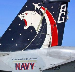 Tail of an U.S. Navy McDonnell Douglas F/A-18C Block 50 Hornet (BuNo 165217) that indicates the assigned air wing ("AG" for CVW-7) as well as the assigned aircraft carrier USS Dwight D. Eisenhower (CVN-69). The painting shows the squadron emblem of Strike Fighter Squadron 131 (VFA-131) Wildcats.